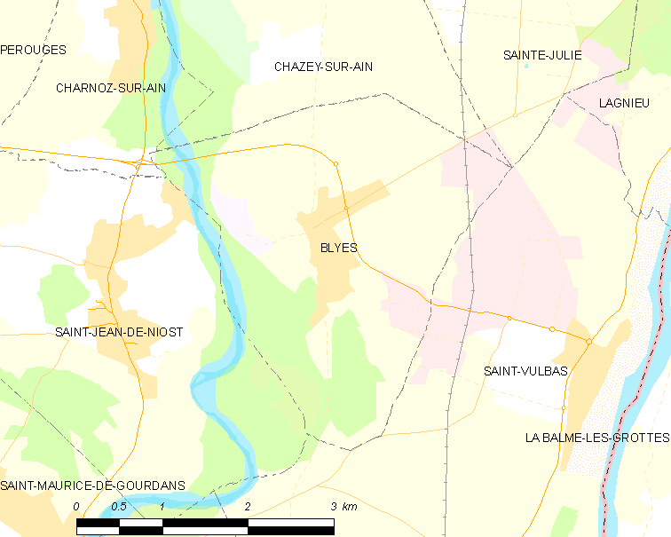 Map of French commune: Blyes Map commune FR insee code 01047.png